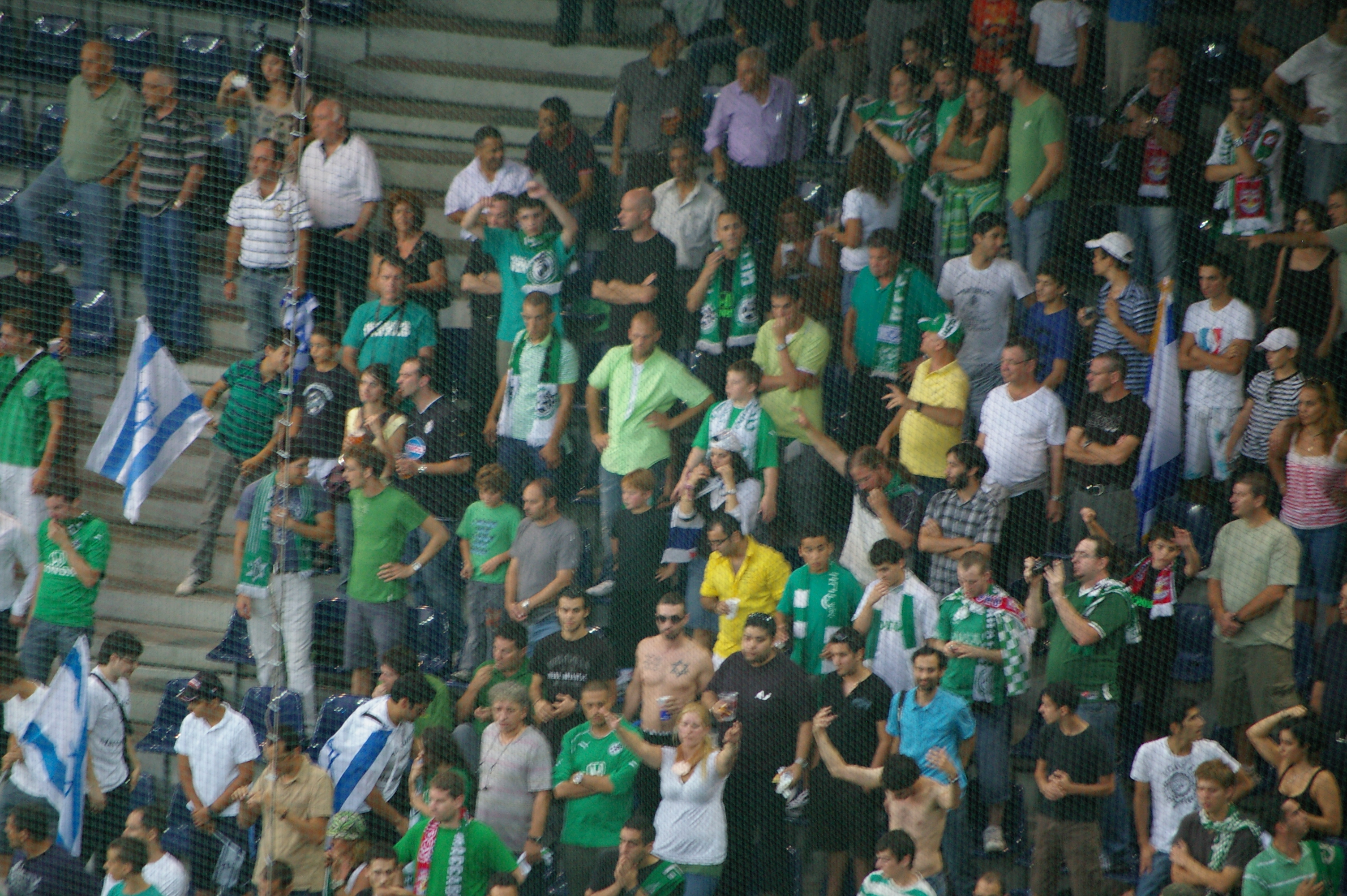 Supporters of Maccabi Haifa during the Championsleague qualifier 4th round in Salzburg